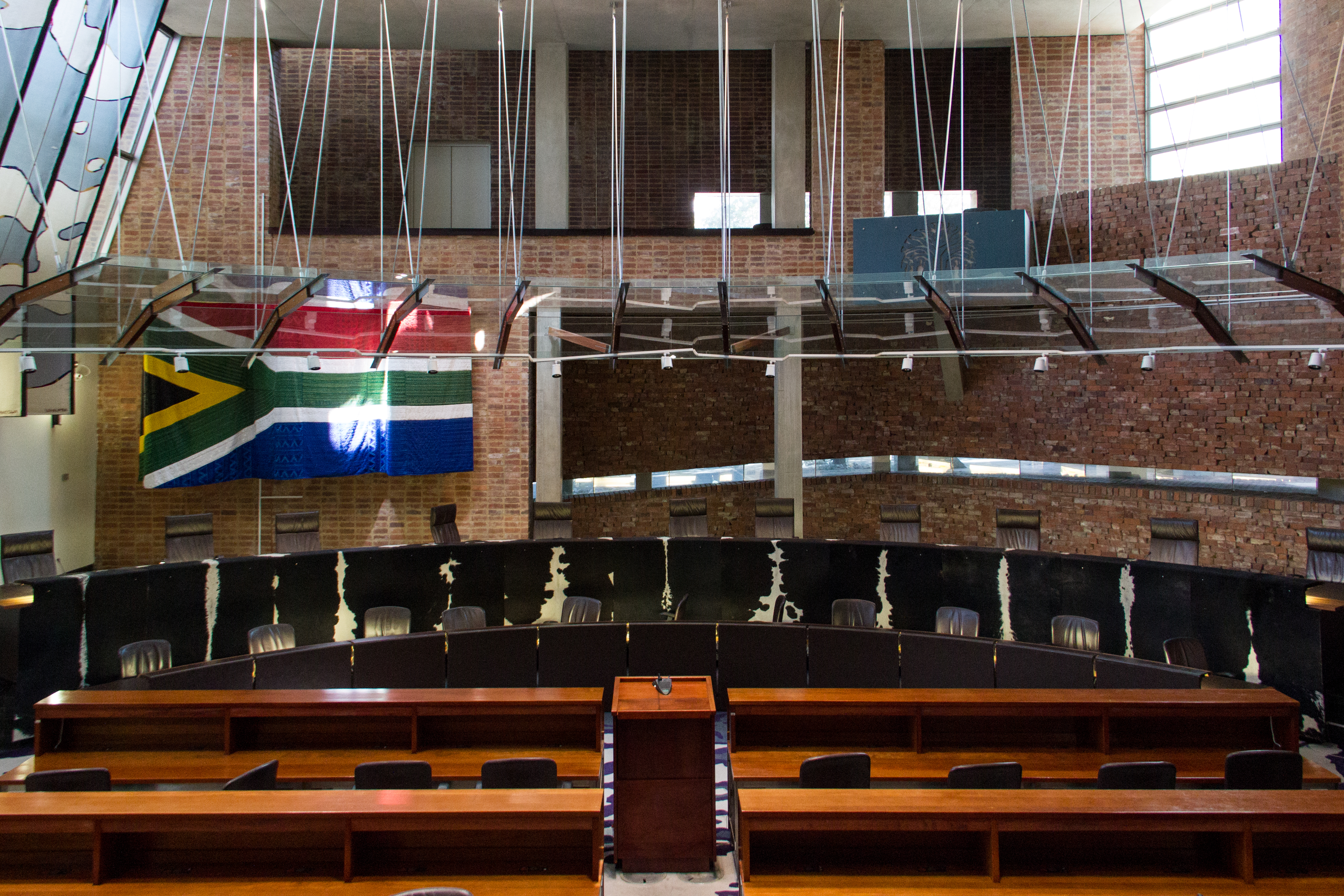 Constitutional Court of South Africa at Constitution Hill, Braamfontein, Johannesburg.